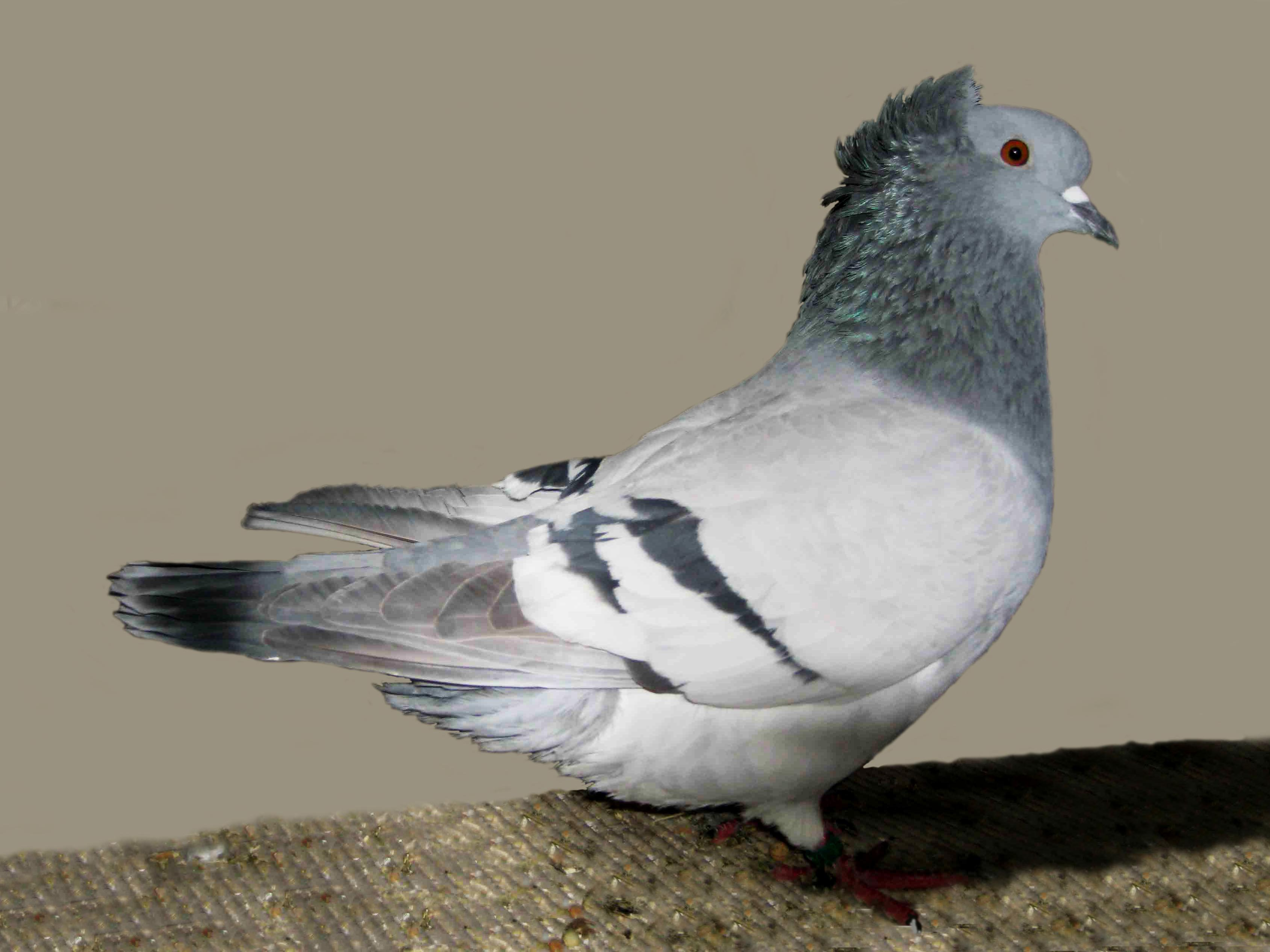 Crested Soultz (Silver Barred)